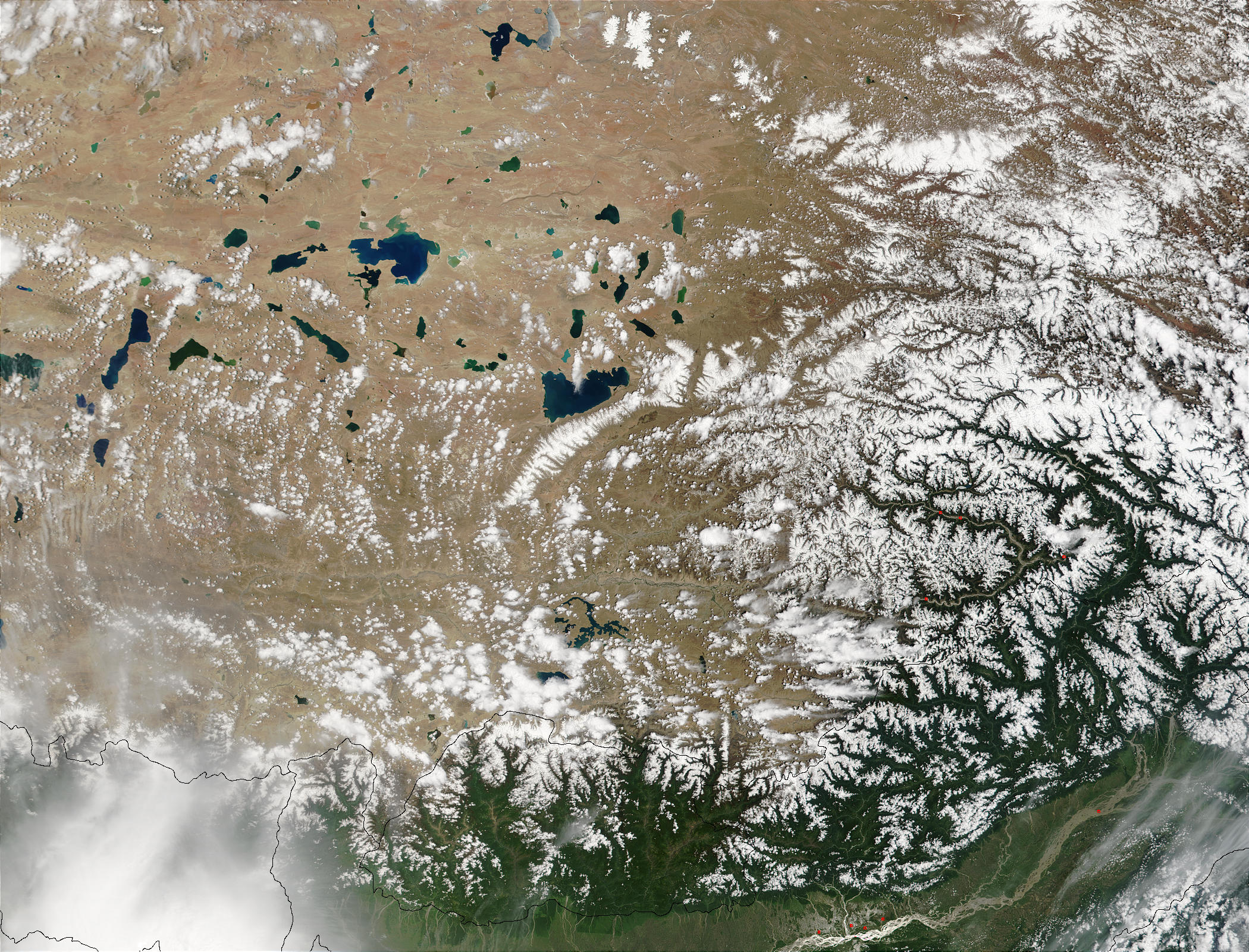 On May 24, 2002, MODIS captured this image of the sparsely vegetated, lake-dotted Tibetan Plateau (top). To the south, the snow-covered peaks of the Himalaya Ranges ring the Plateau. To the far south (lower right), India's Brahmaputra River glints in the sun.